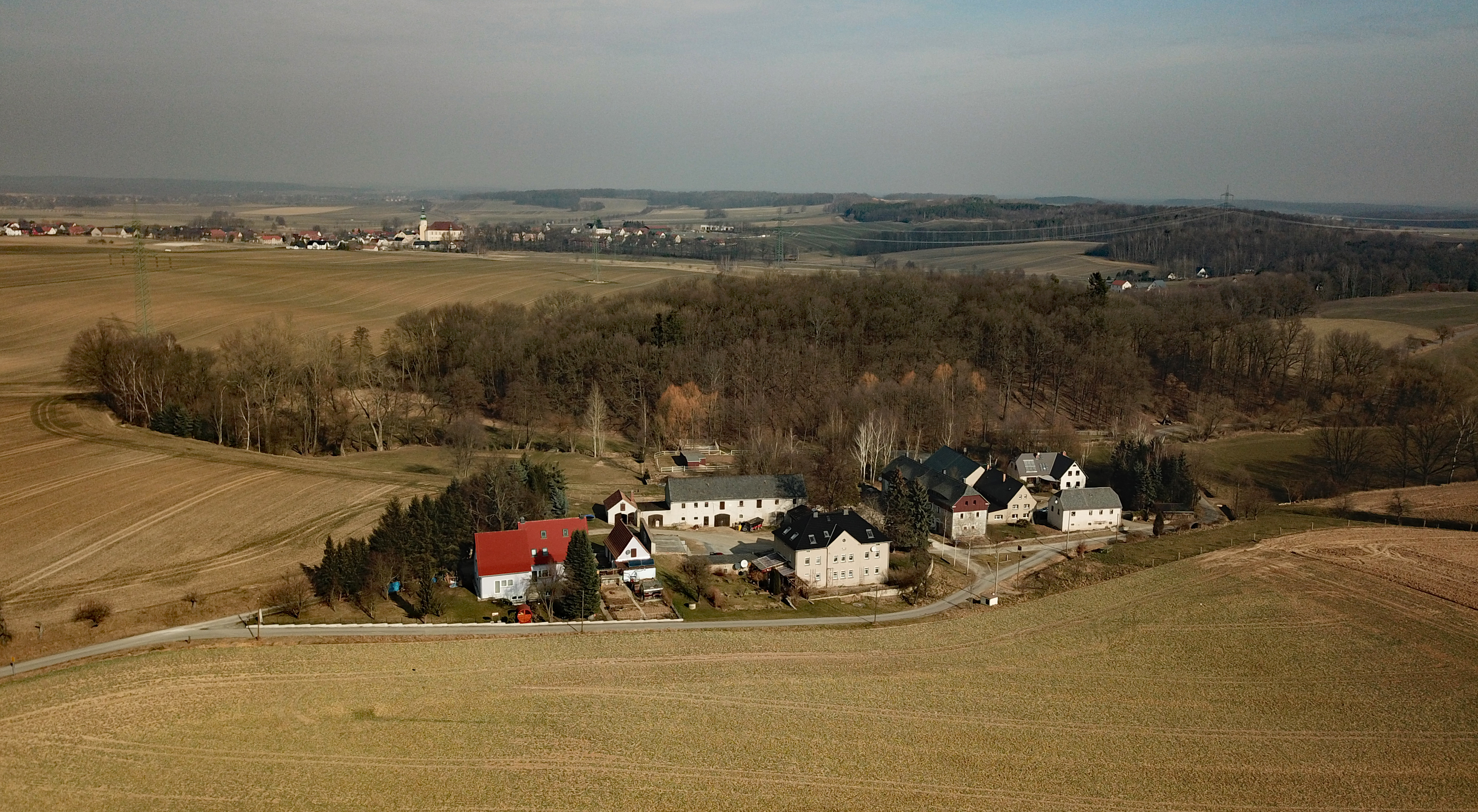 Kopschin (Crostwitz, Saxony, Germany) Hornjoserbsce: Powětrowy wobraz Kopšina